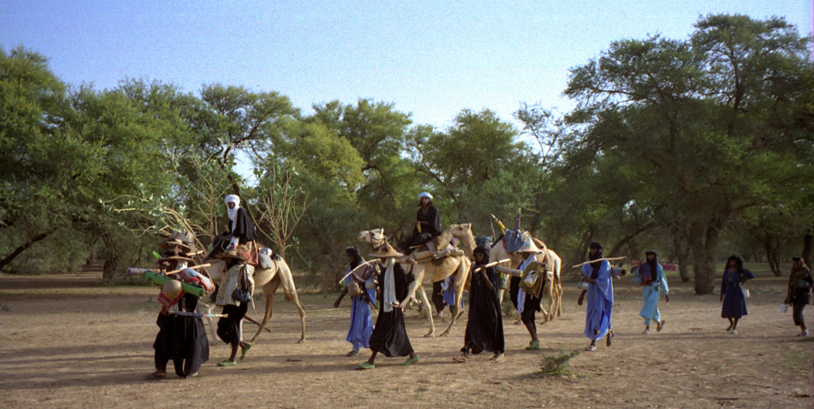 Traveling Wodaabe. Photographed 1997 in Niger.1997 #277-2A Wodaabe leaving camp